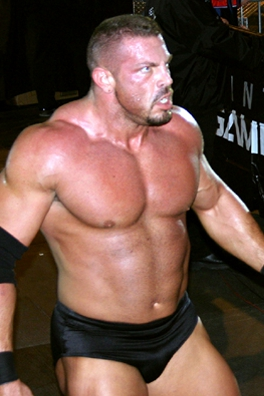 A photo of Luther Reigns. Cropped version of Image:Matt Wiese and Mark Jindrak.jpg by static.